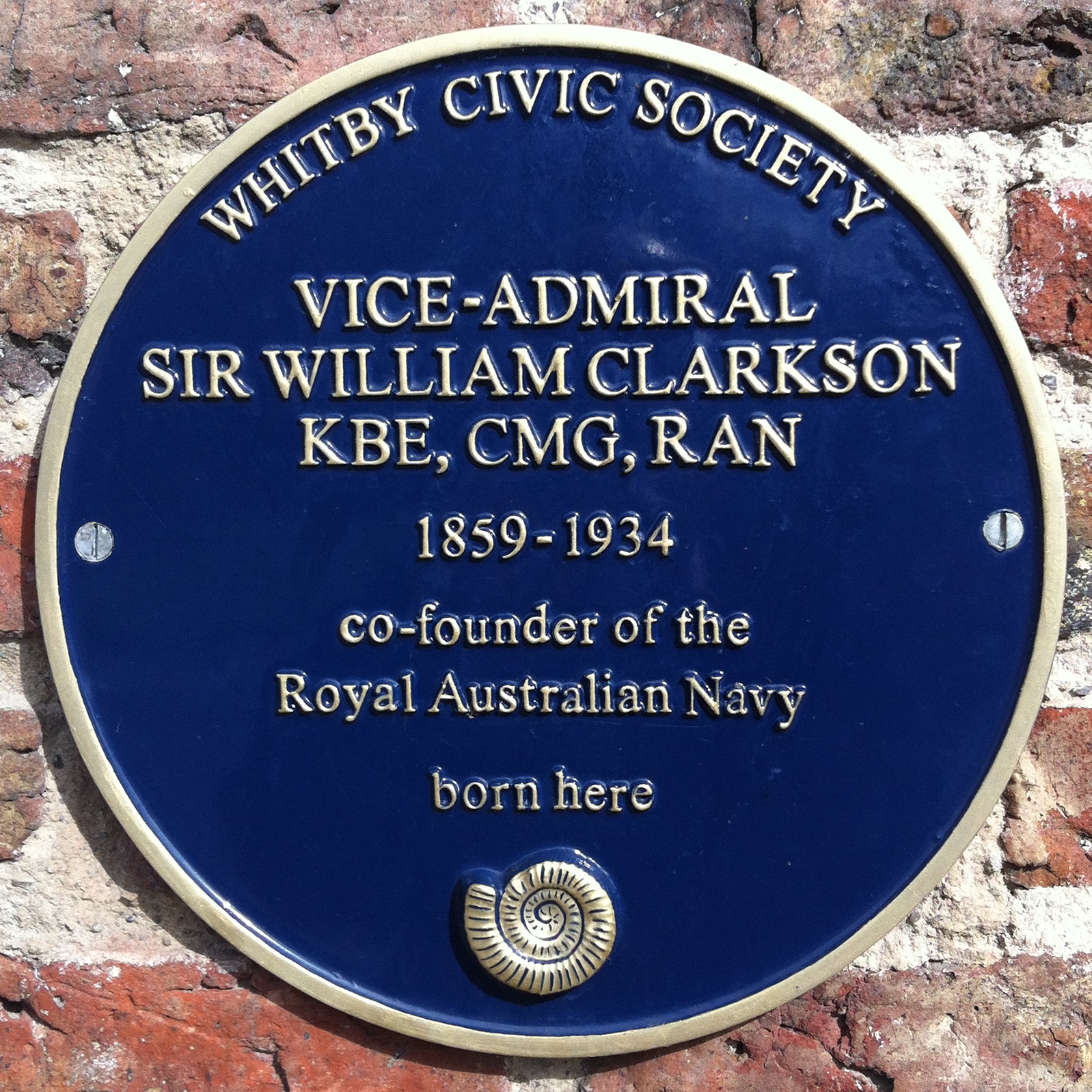 Whitby Civic Society Blue Plaque to denote the birth place of Vice-Admiral Sir William Clarkson KBE, CMG, RAN 1859-1934. Co-Founder of the Royal Australian Navy.